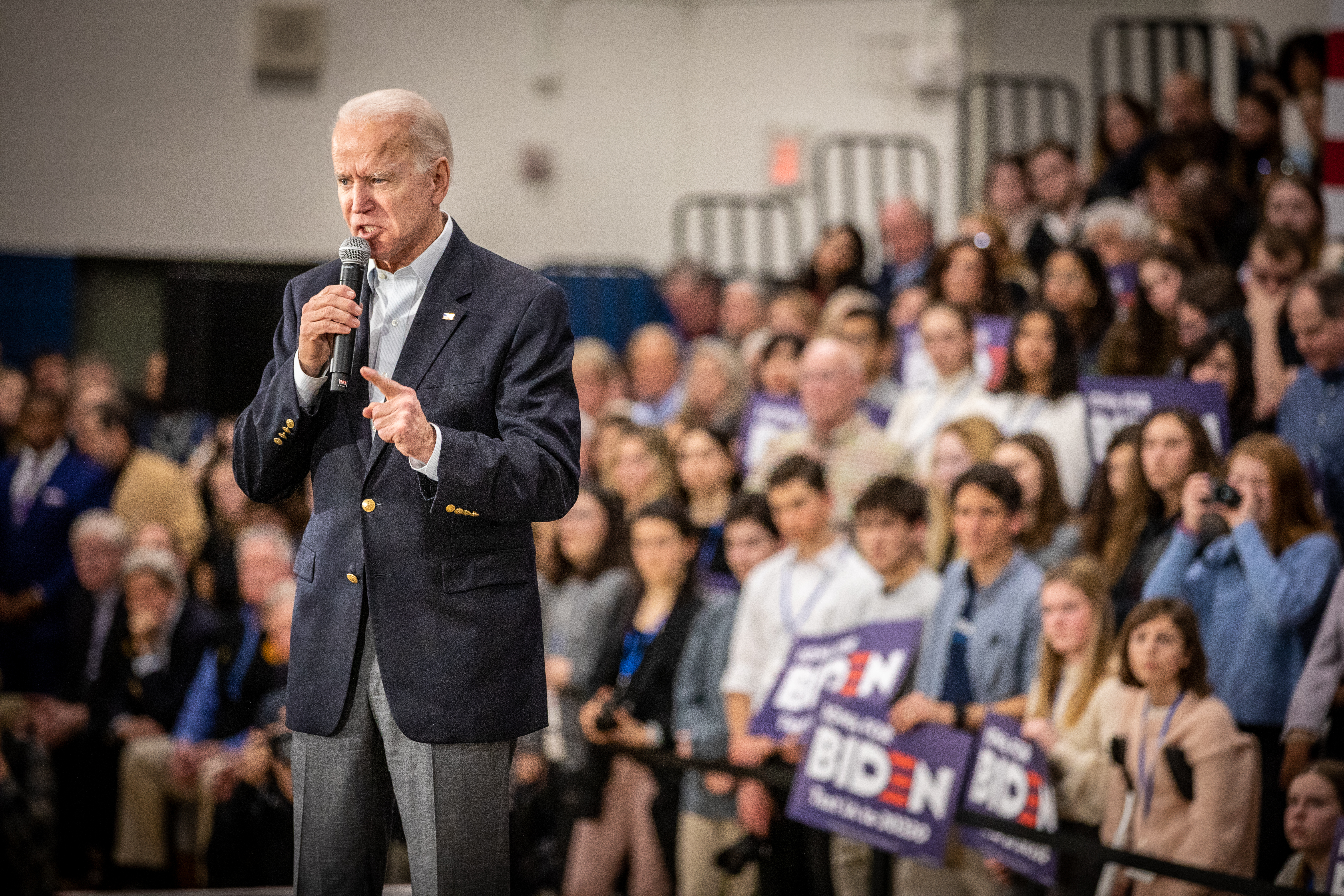 On the eve of the Iowa caucuses, Vice President Joe Biden holds a campaign rally at Hiatt Middle School.